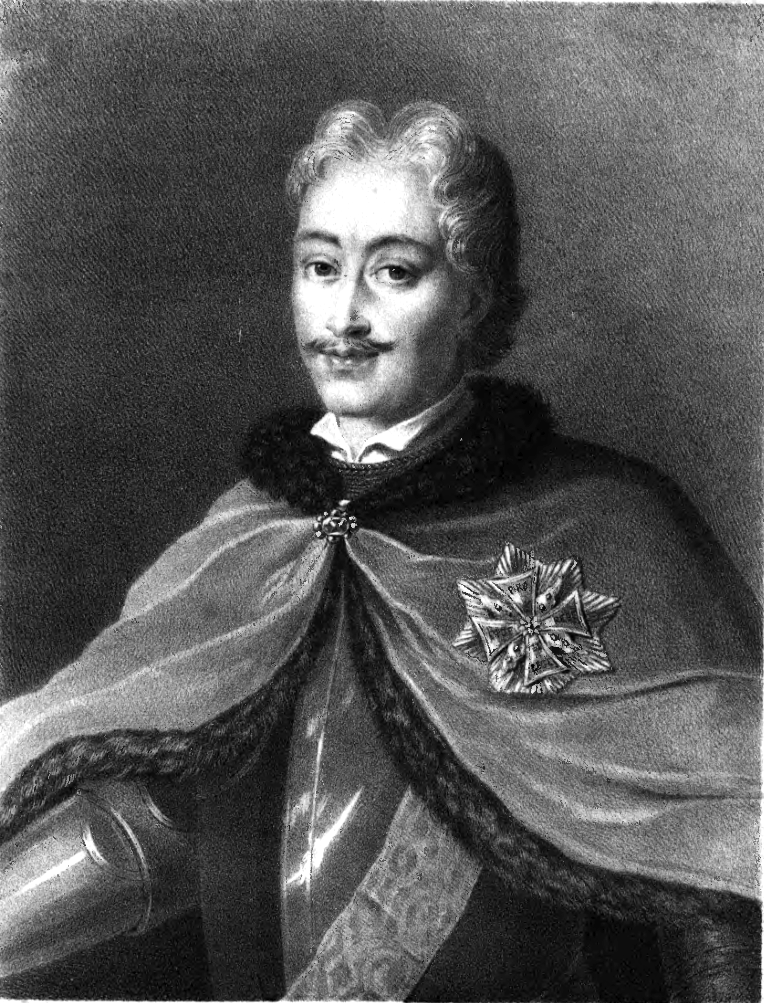 Portrait of Stanisław Ernest Denhoff (c.1673-1728)